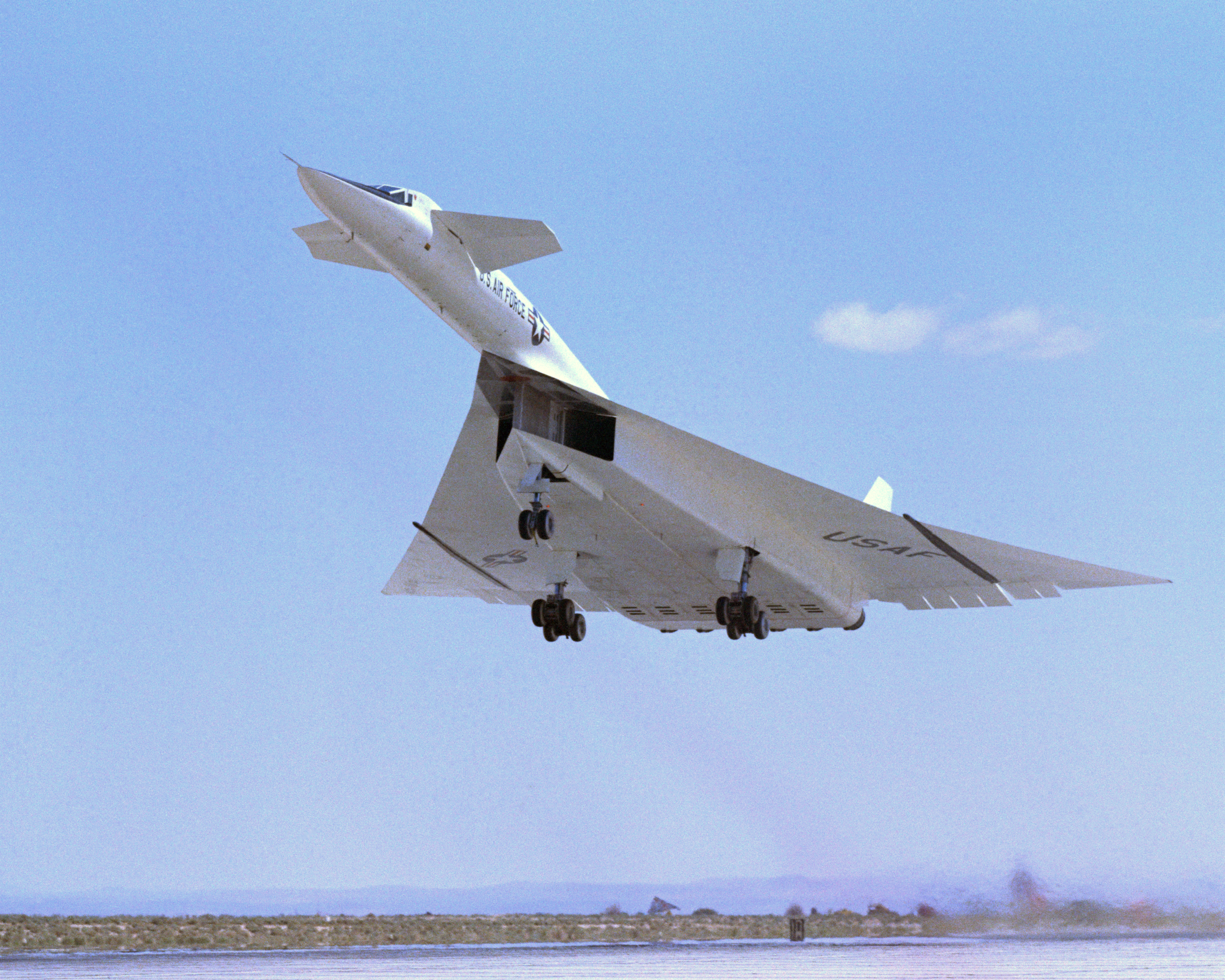 Viewed from the front the #1 XB-70A (62-0001) is shown climbing out during take-off. Most flights were scheduled during the morning hours to take advantage of the cooler ambient air temperatures for improved propulsion efficiencies. The wing tips are extended straight out to provide a maximum lifting wing surface. The XB-70A, capable of flying three times the speed of sound, was the world's largest experimental aircraft in the 1960s. Two XB-70A aircraft were built. Ship #1 was flown by NASA in a high speed flight research program.